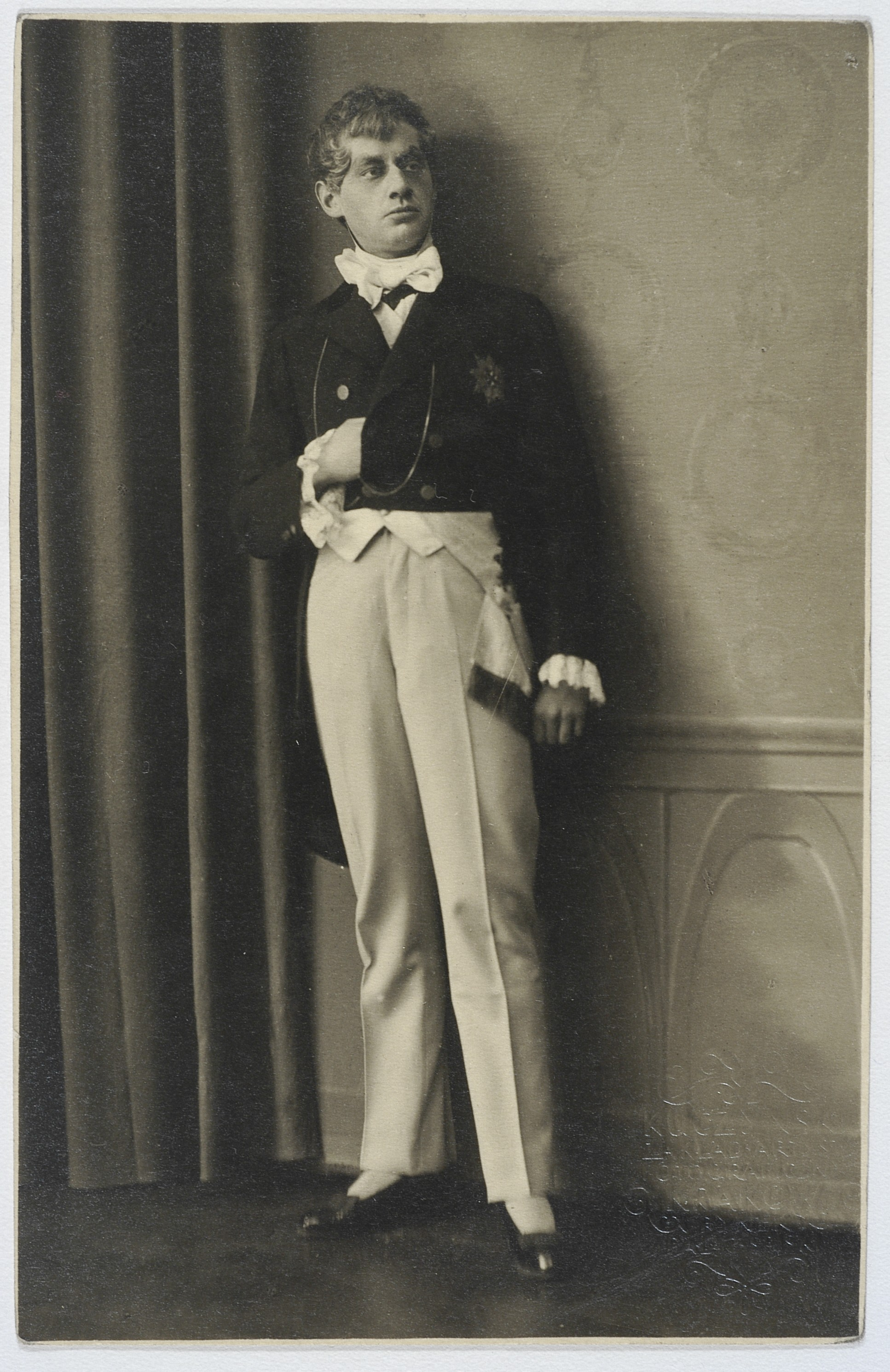 Zygmunt Nowakowski jako książę Metternnich w spektaklu Orlę Edmunda Rostanda